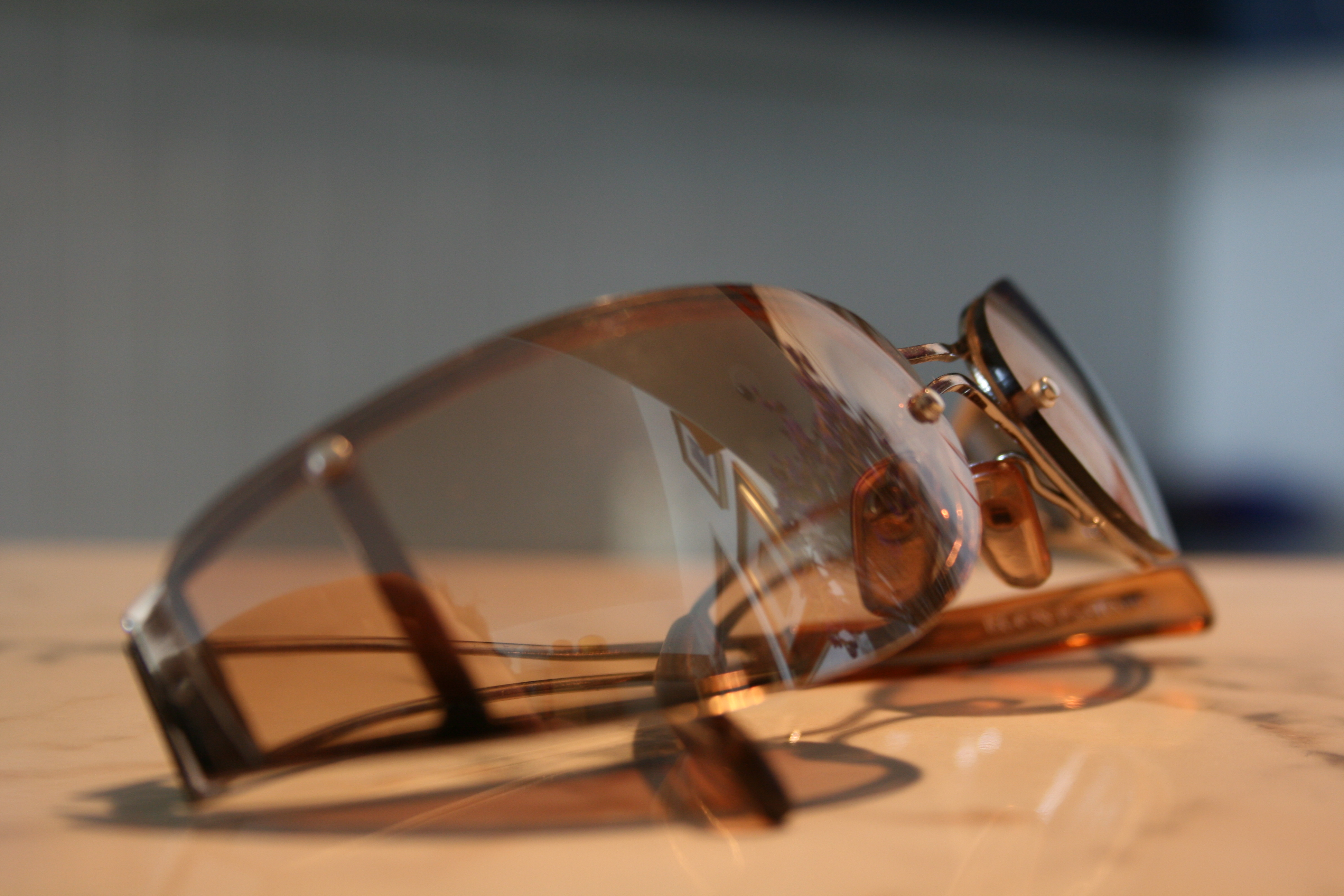 Sunglasses.